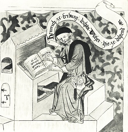 Poet Heinrich von Laufenberg.